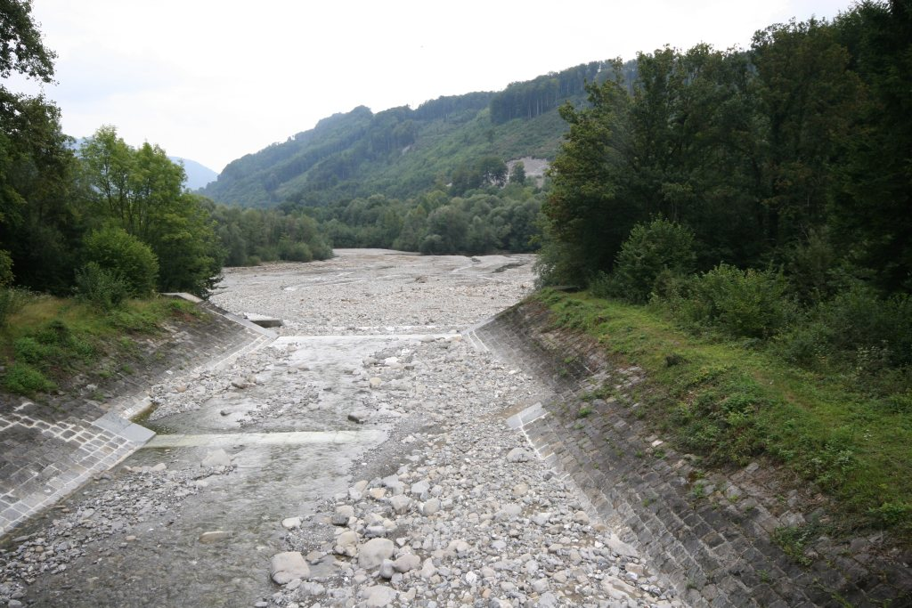 River "Grosse Schliere", near Alpnach, Kanton Obwalden, Switzerland